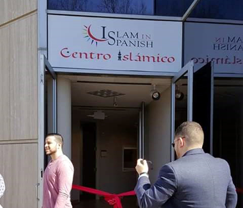 This is a photo of the grand opening at the IslamInSpanish Centro Islamico.